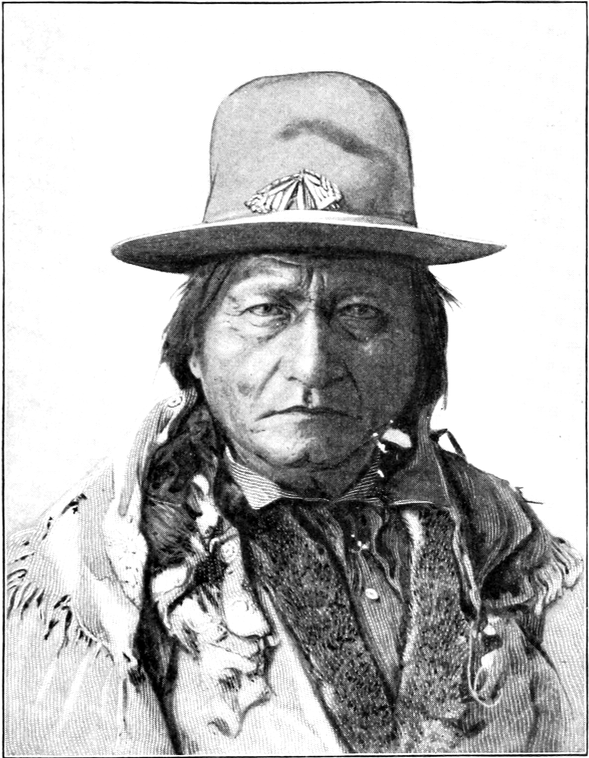 Sitting Bull